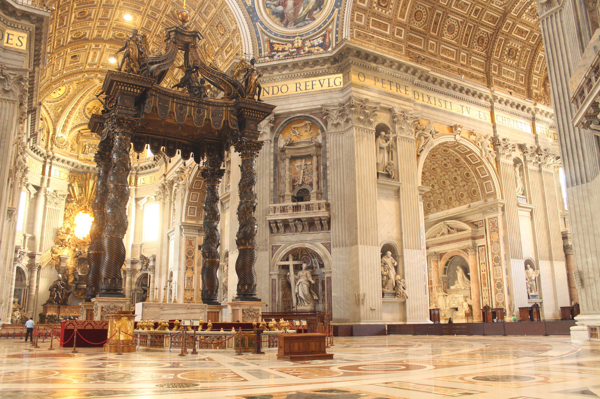 This image has been originally created as the illustration for saint pêcheur entry in crosswords dictionary . It has been released under CC-BY-3.0 license.